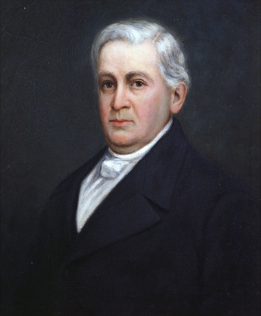 Gabriel Slaughter (1767–1830), the seventh Governor of the U.S. state of Kentucky